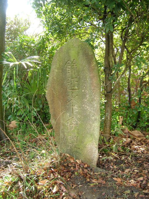 Monument_of_Yo-Ennen's_Home. Loc: Emyo park, Midori-ku, Nagoya city, Aichi Prefecture, Japan. 余延年宅跡碑 撮影場所 愛知県名古屋市緑区・江明公園